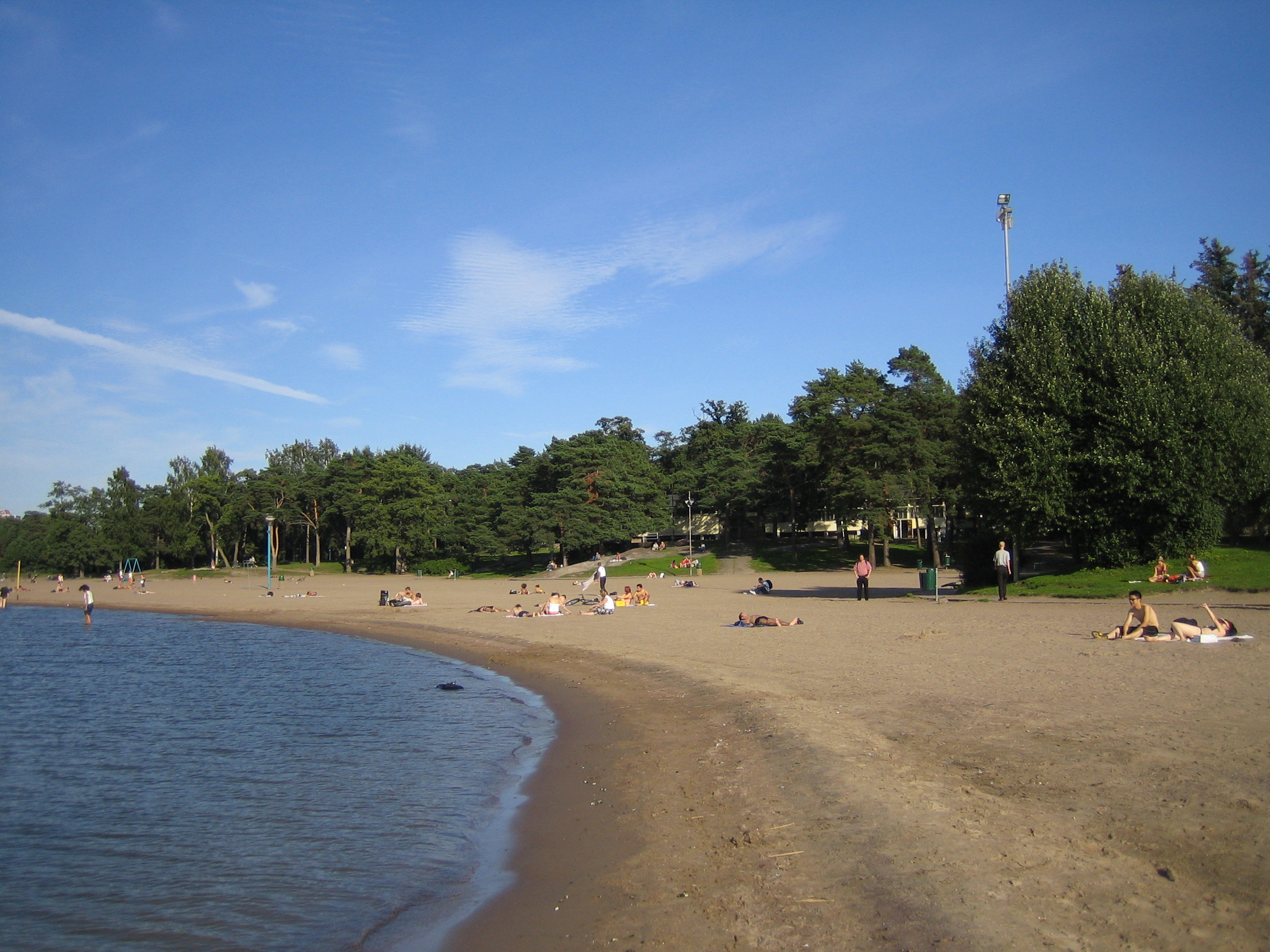 Hietaniemi beach (Hietaniemen uimaranta; Hietsu) in Helsinki, Finland.